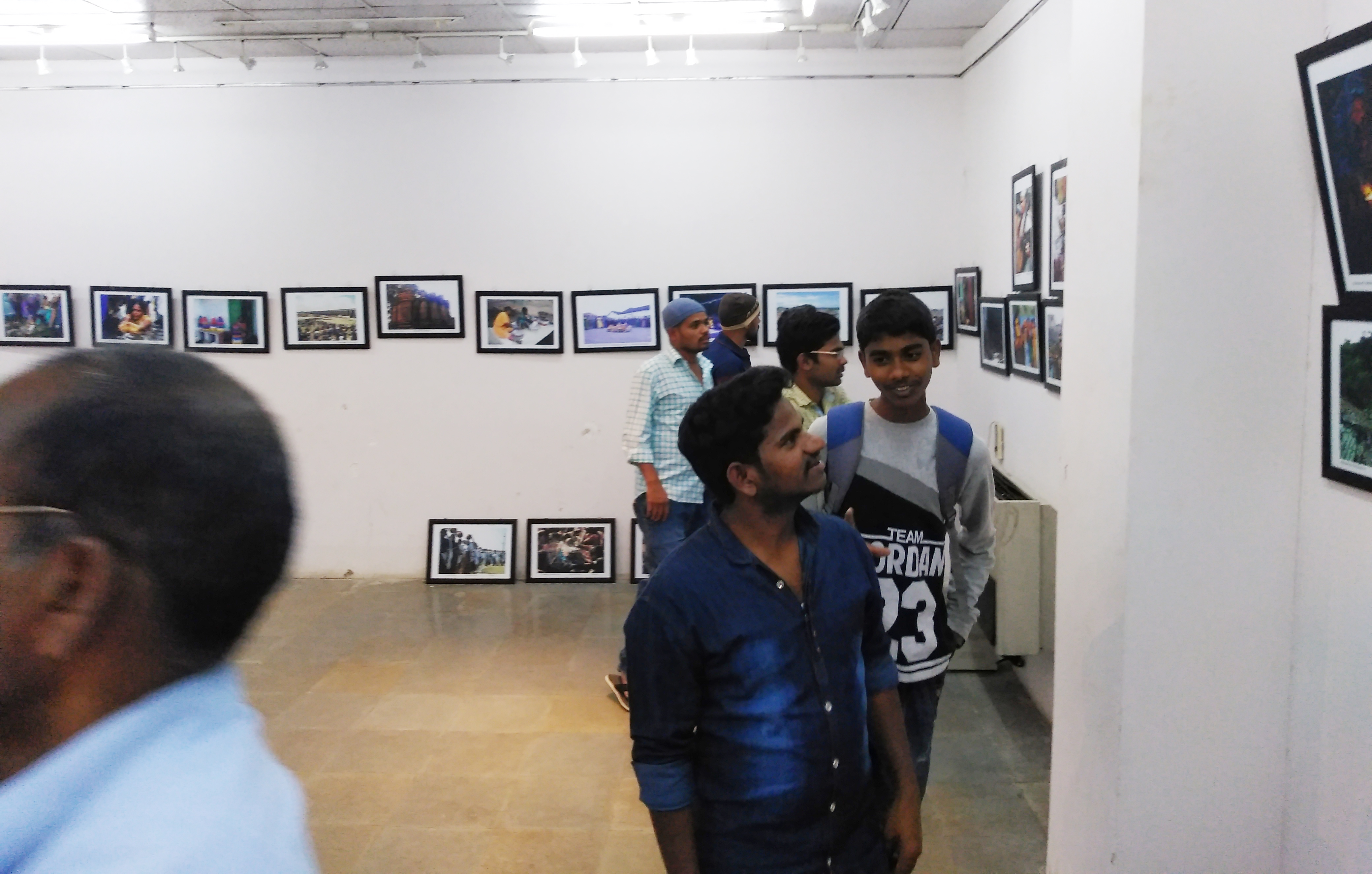 తెలుగు ప్రపంచ మహాసభల వద్ద దృశ్యాలు,వ్యక్తులు,సమావేశాలు